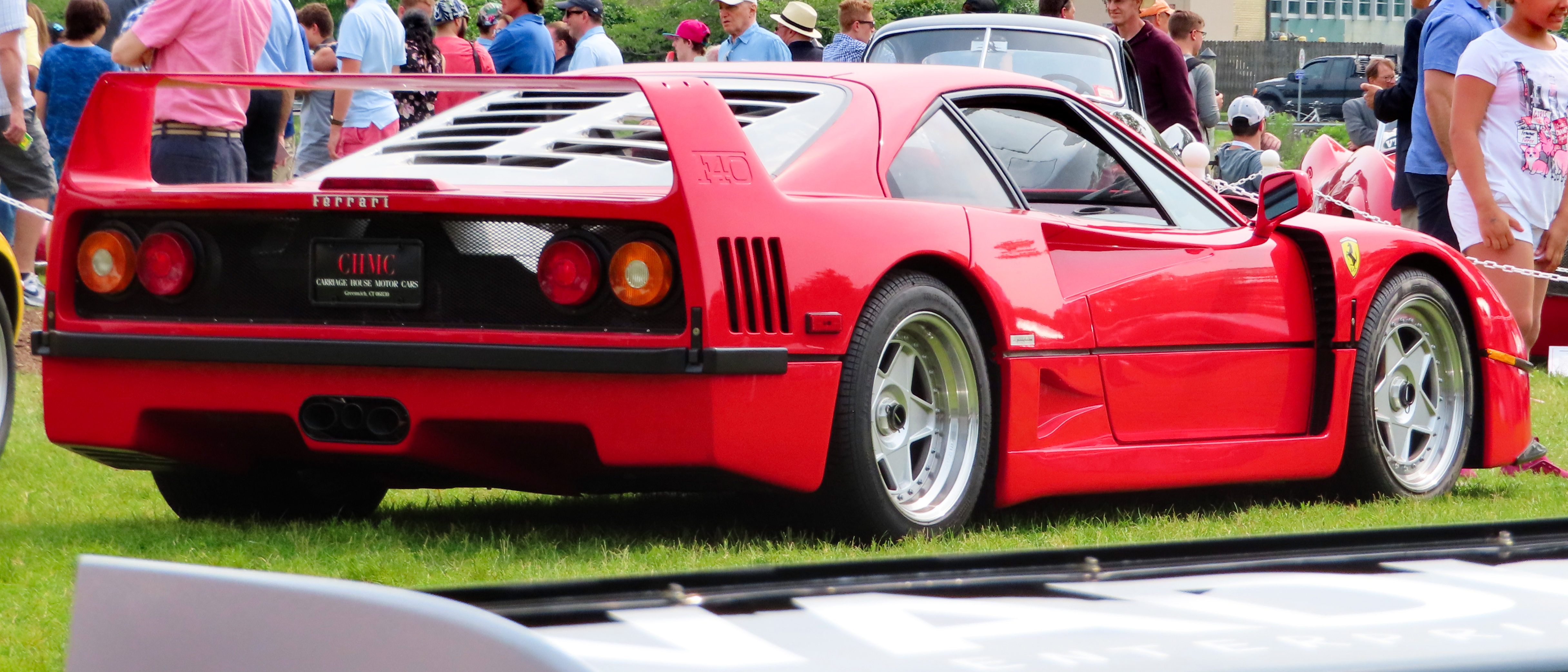 A 1991 Ferrari F40 photographed during the 2019 Greenwich Concours d'Elégance, Connecticut, USA